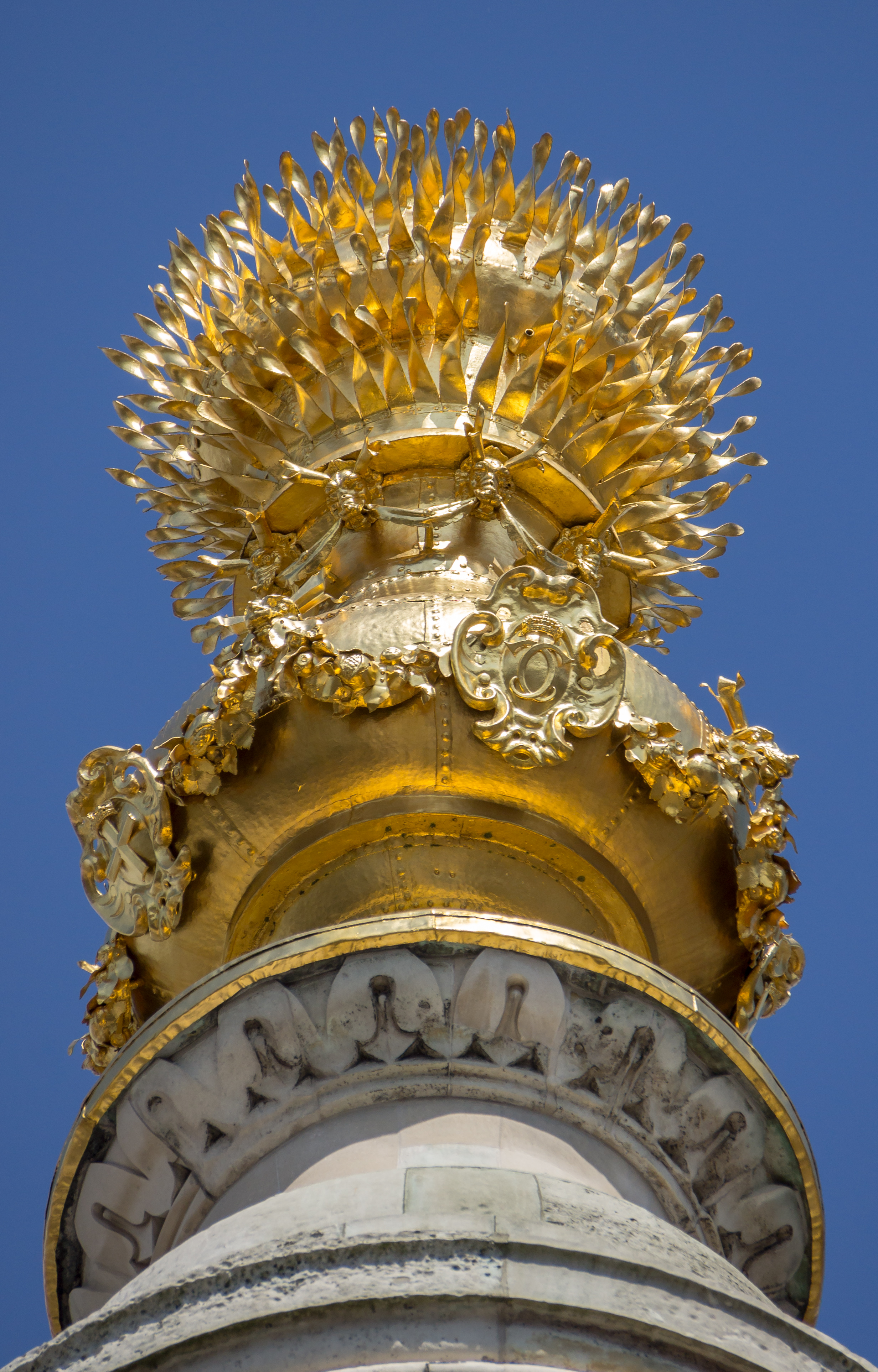 The urn of fire atop the Monument, 2014.